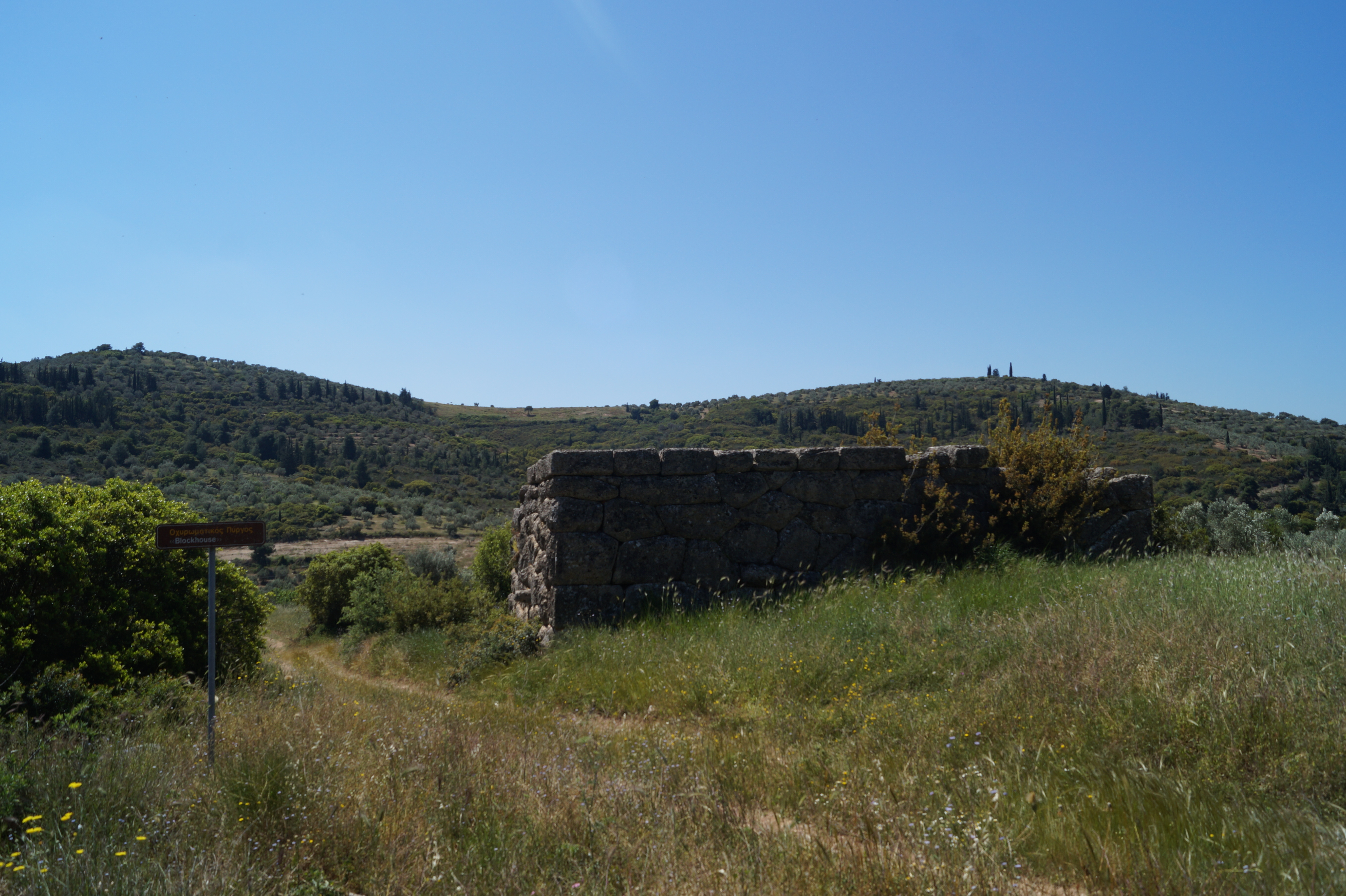 Fichti, Argolis, Greece: Blockhouse near Nemea, view from north.